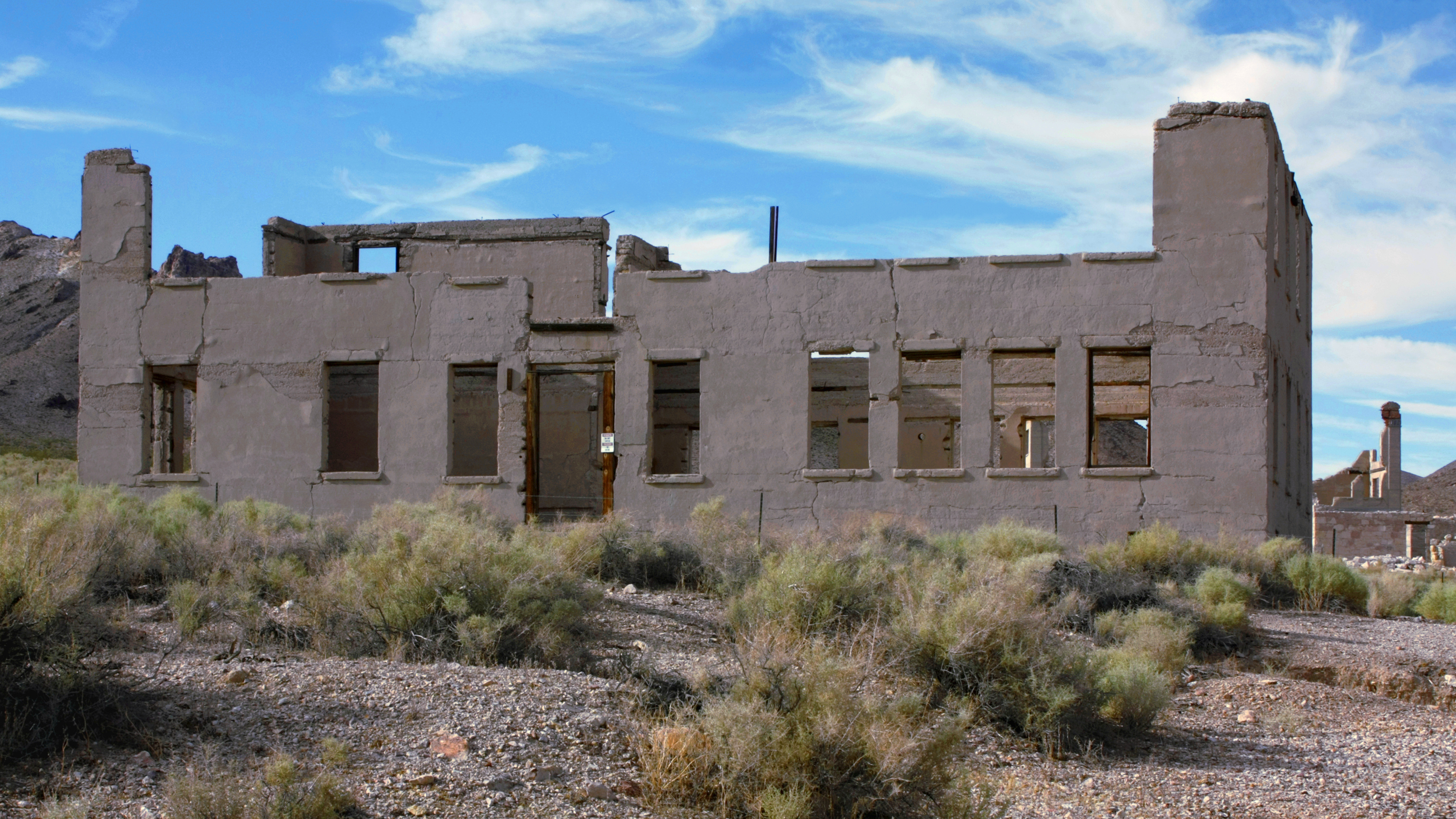 School building, Rhyolite, Nevada, United States, 2011